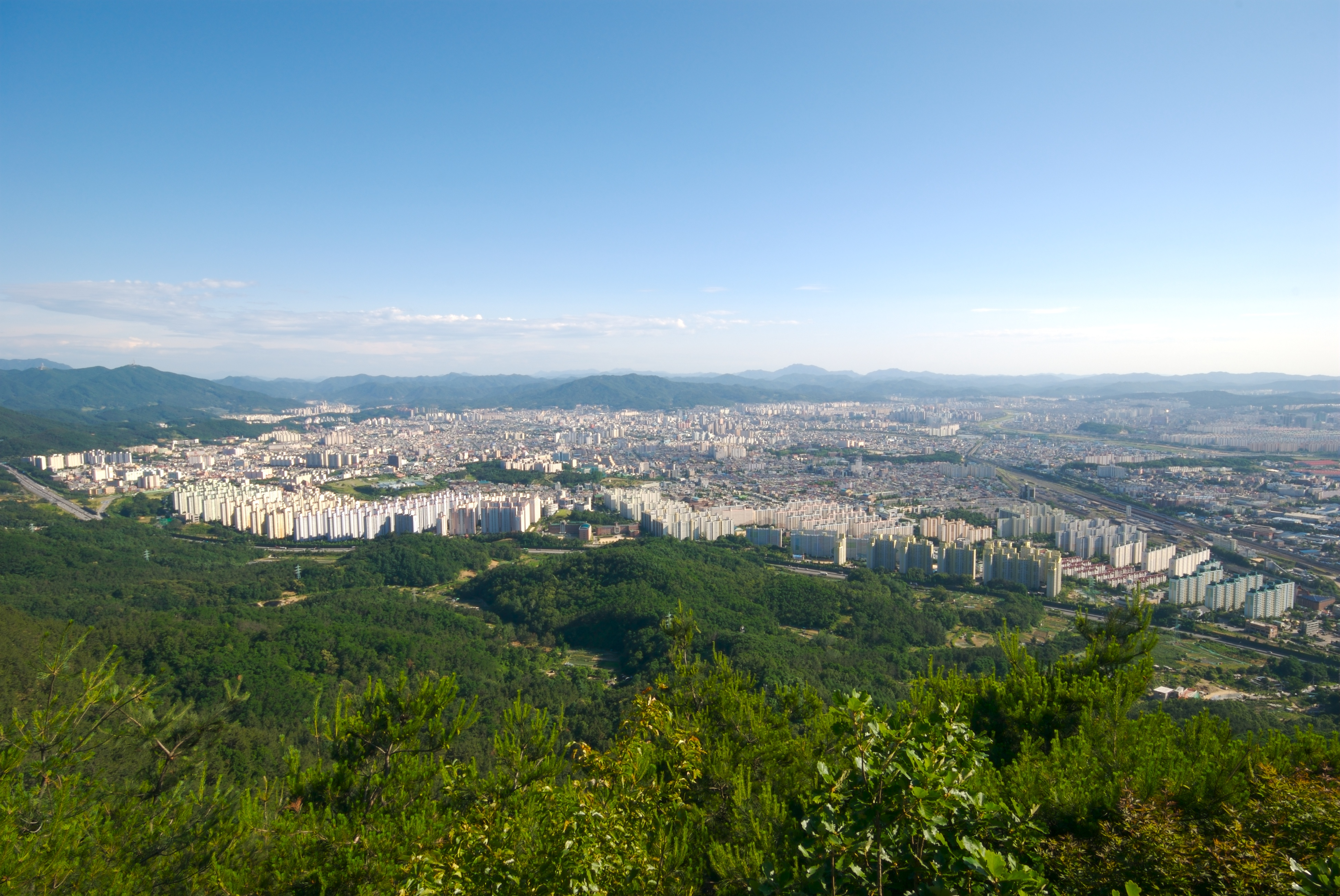 Cityscape of the south side of Daejeon, South Korea. Taken from Bonghwangjeong at Gyejoksan, which is in the northeast direction of the city.